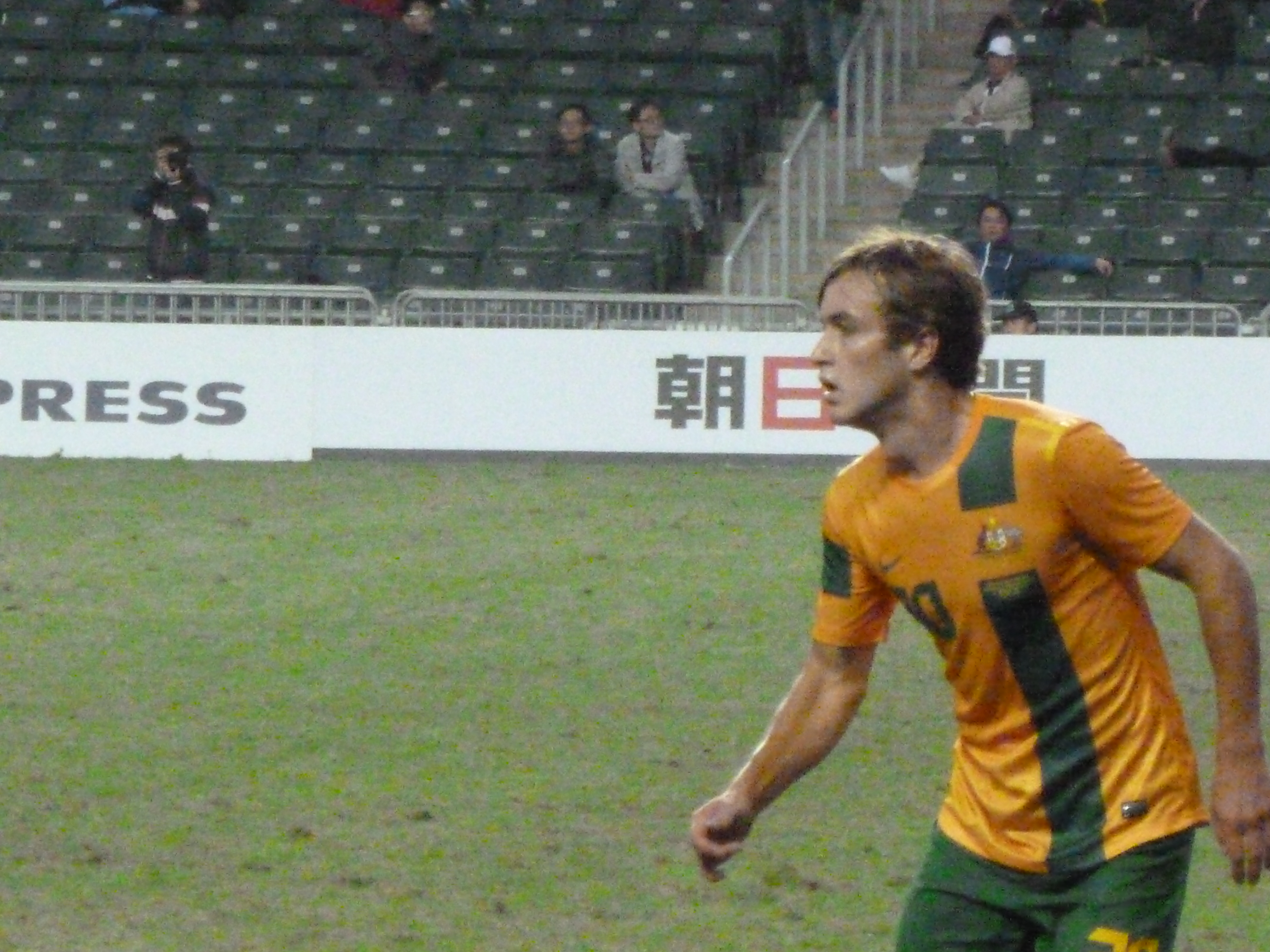 Adam Taggart (9 Dec 2012, EAFF East Asian Cup 2013 Preliminary Competition Round 2, Australia vs Chinese Taipei, Hong Kong Stadium)中文（香港）: 阿當泰加特 (9 Dec 2012, 2013東亞盃外圍賽第二圈, 澳洲 vs 中華台北, 香港大球場)